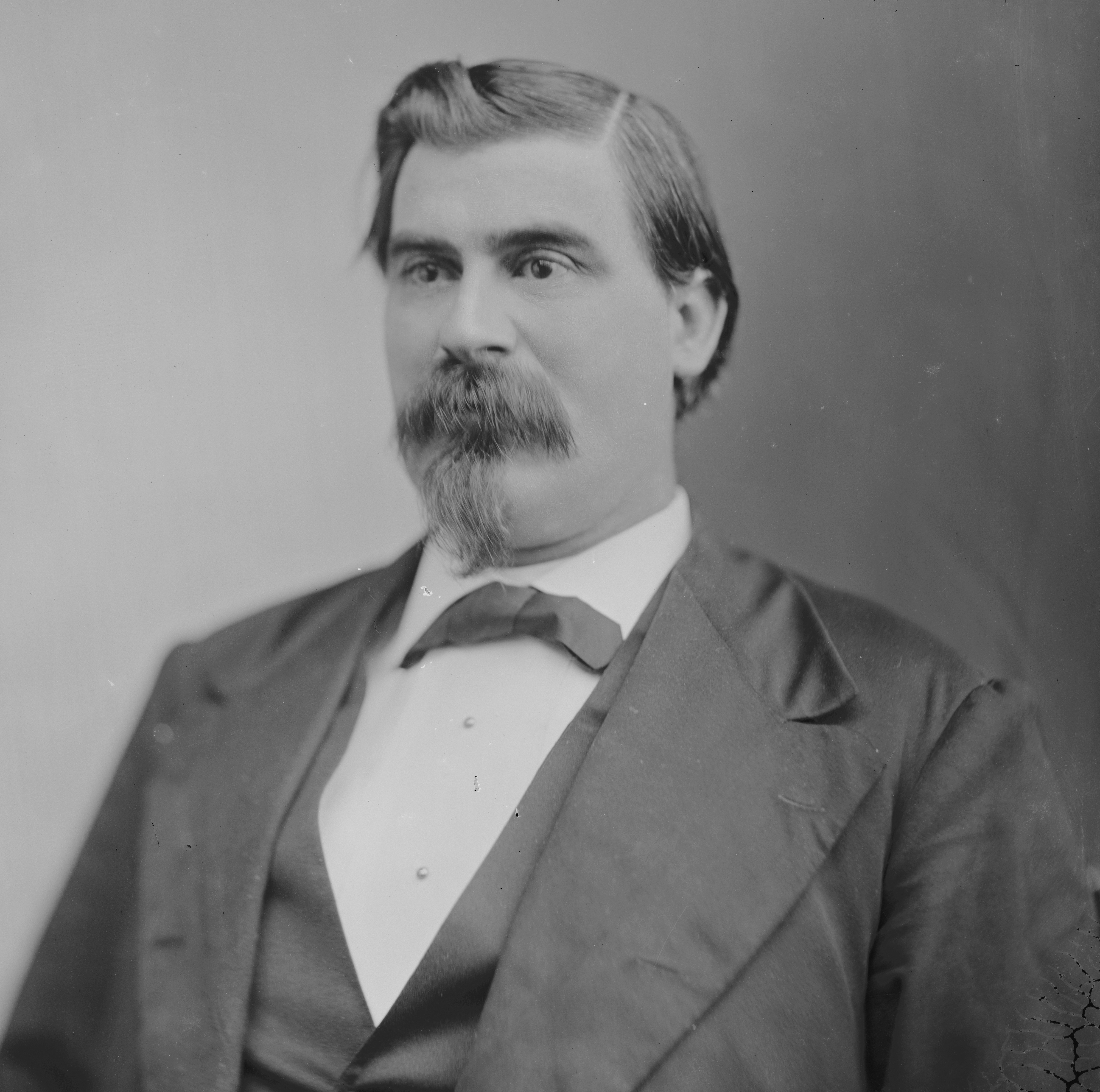 Auburn Pridemore, US Representative from Virginia